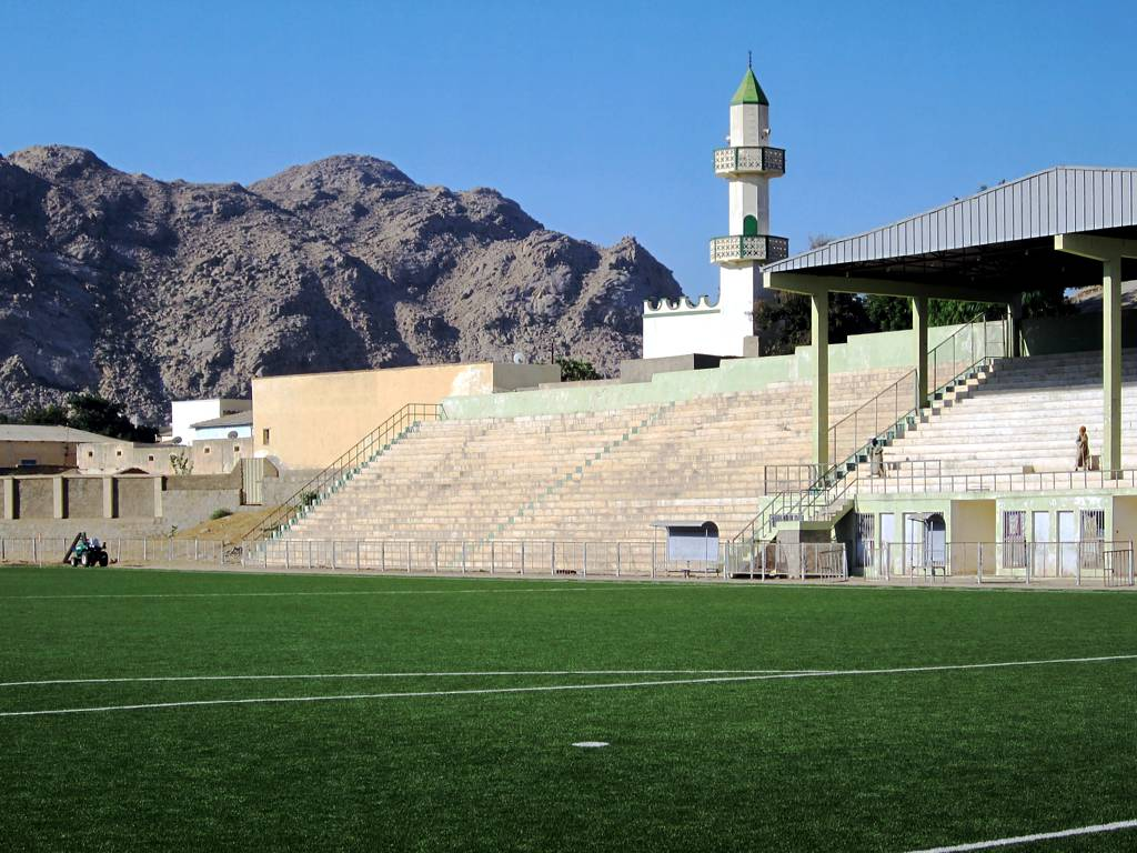 Joko Keren Stadium in Keren, Eritrea, has an artificial playing field provided by the International Federation of Association Football (FIFA).